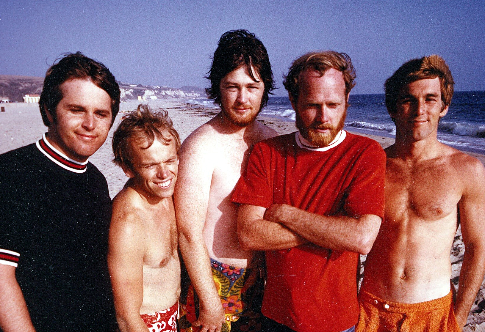 c. 1970 press photo of the Beach Boys